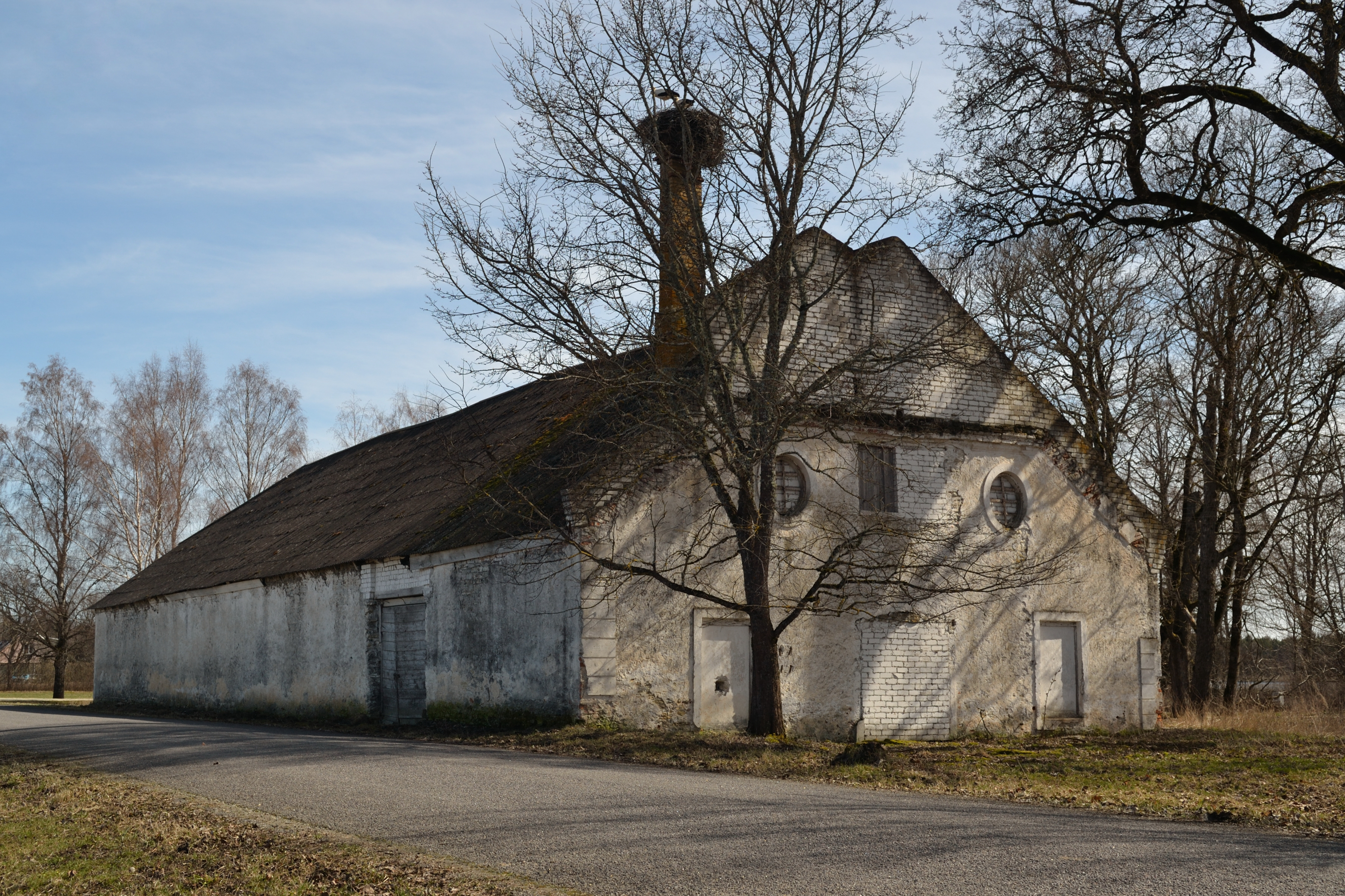 Väinjärve manor granary-grain cereal dryer